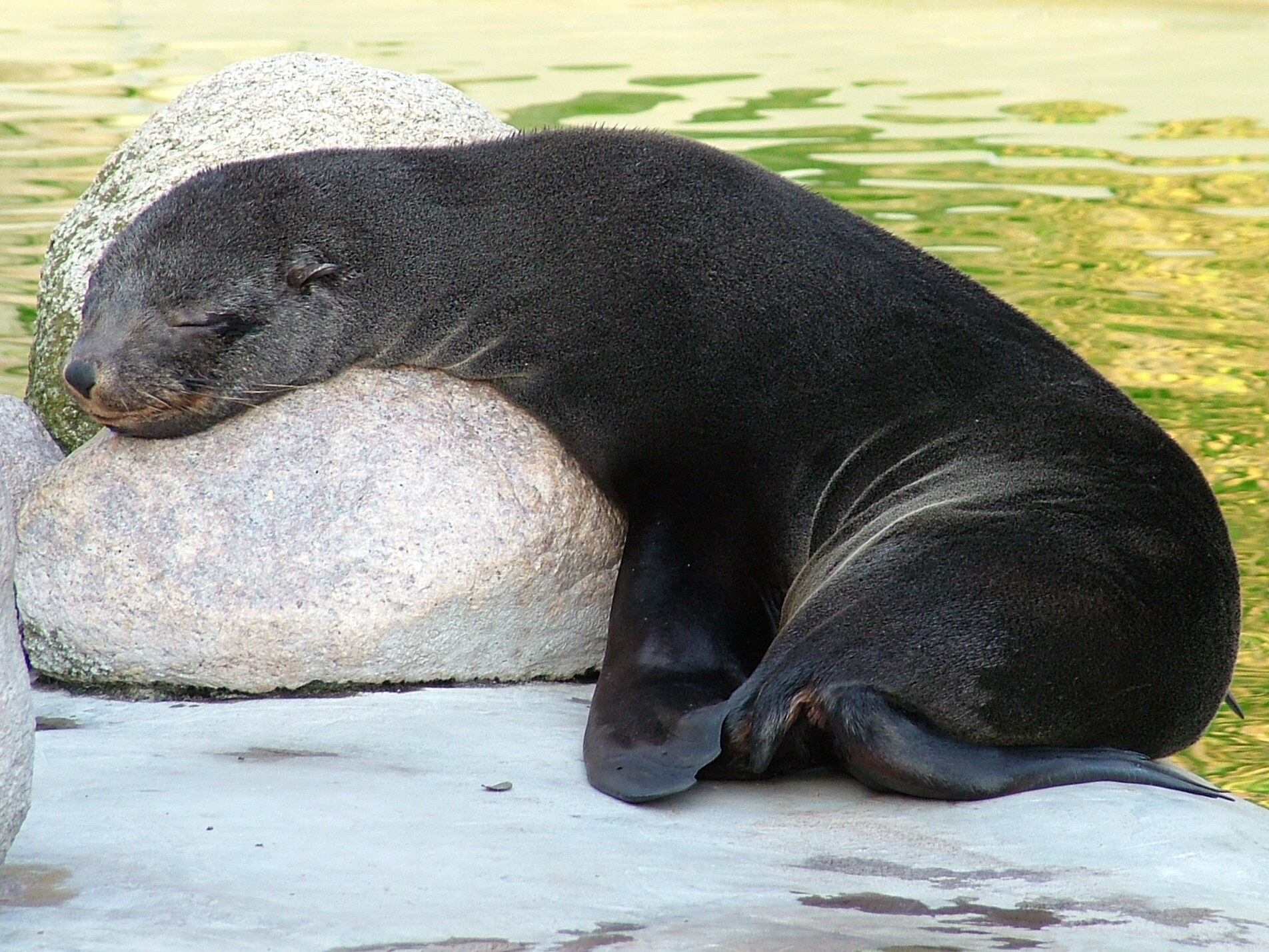 Cape fur seal (Arctocephalus pusillus) taking a nap in the sun, in the zoo of Rostock, Germany.